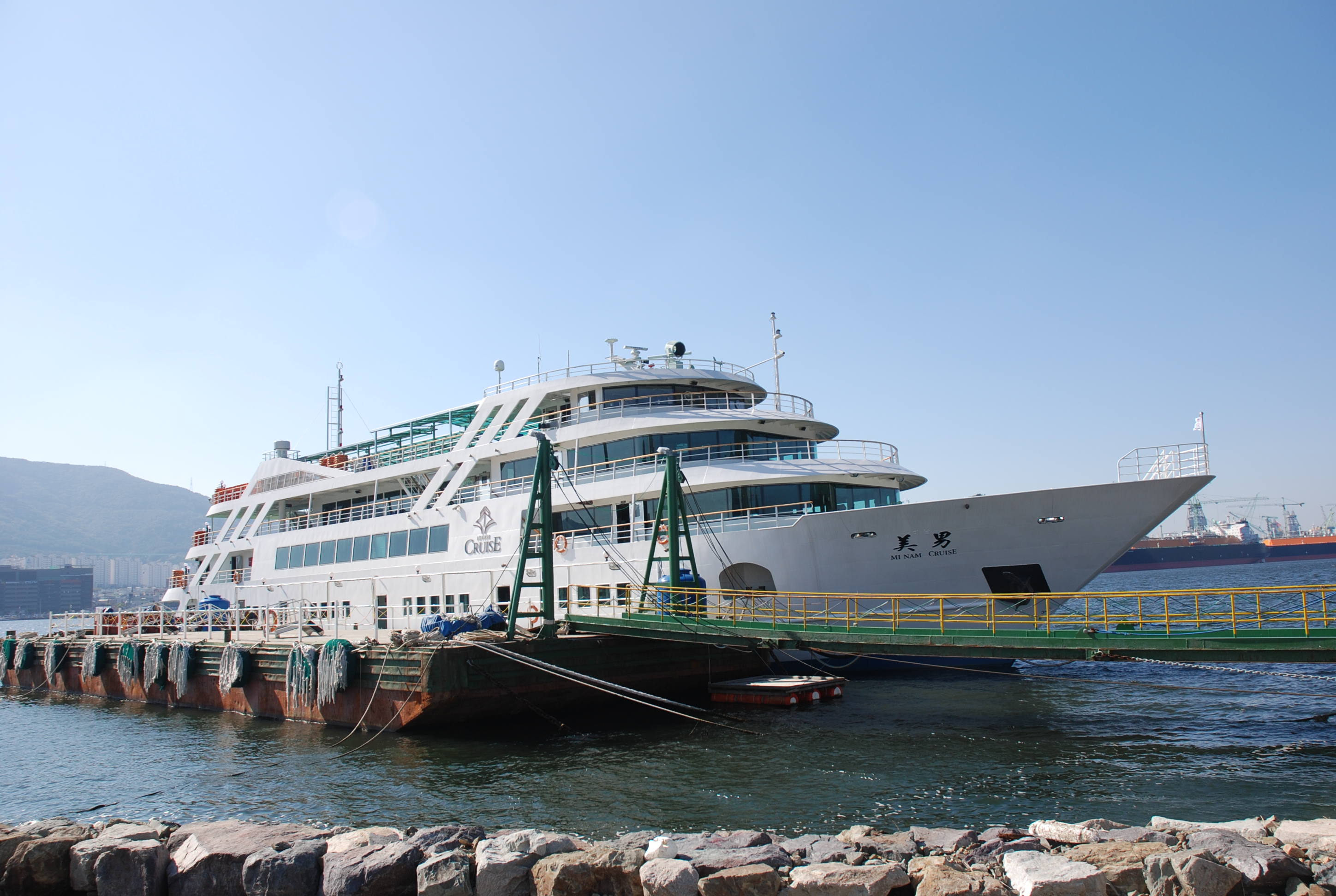 Minam Cruise, Geoje, Gyeongsangnam-do